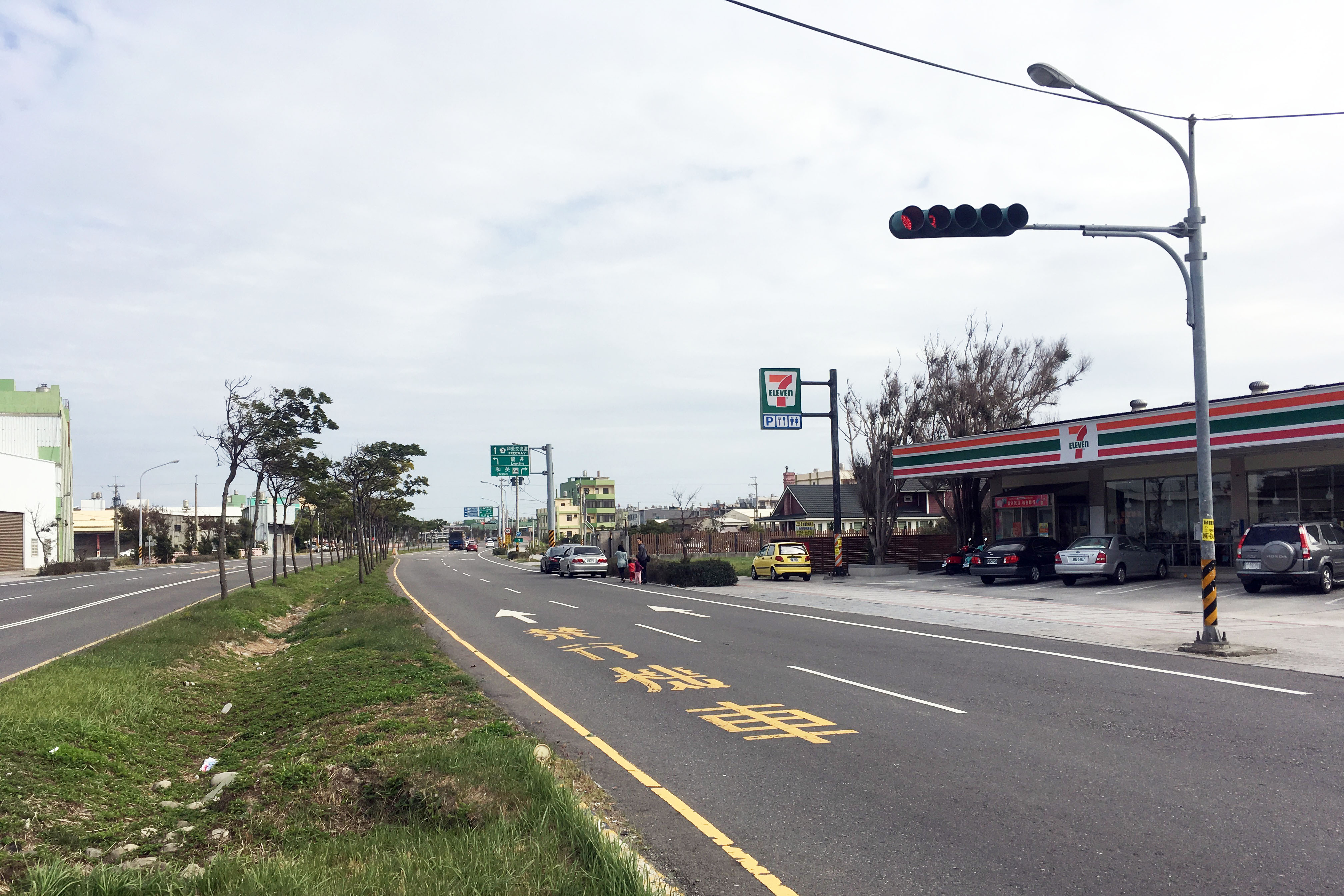 Meiganggong Rd., Shengang Township, Changhua County